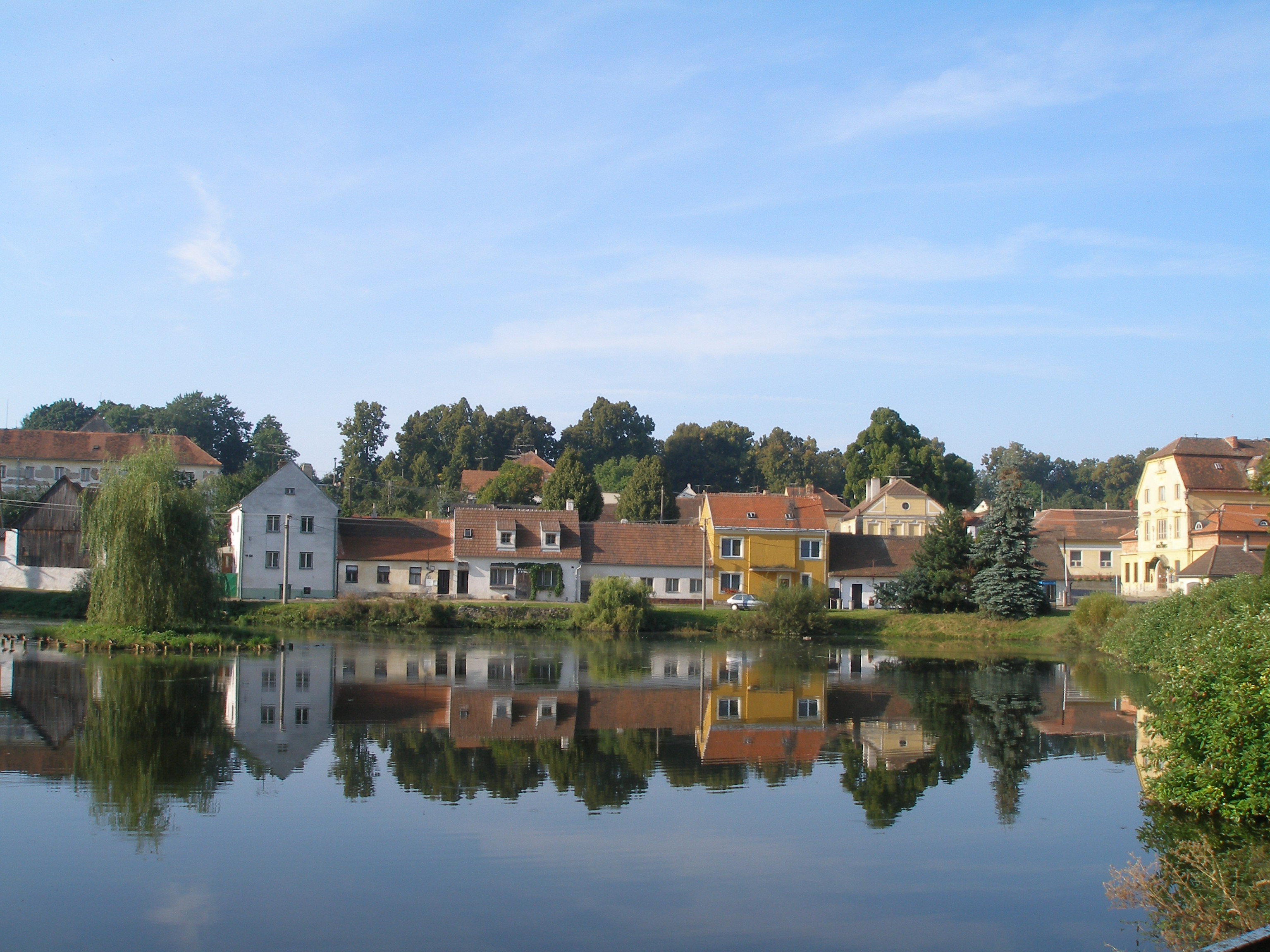 Uherčice (Znojmo district) - view to the village from the castle area